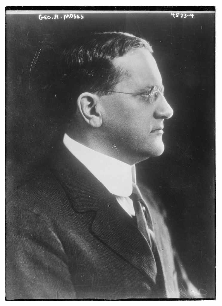 George Higgins Moses in 1918